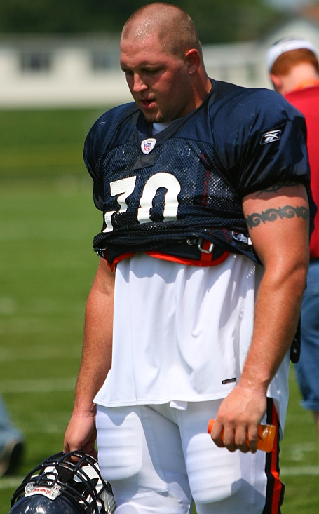 I took this picture of Aaron Brant on July 30, 2007 at the Chicago Bears 2007 Training Camp.